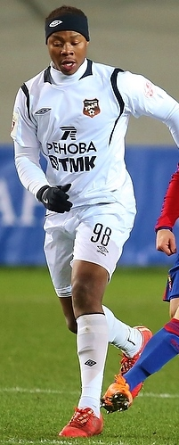 Carlos Strandberg